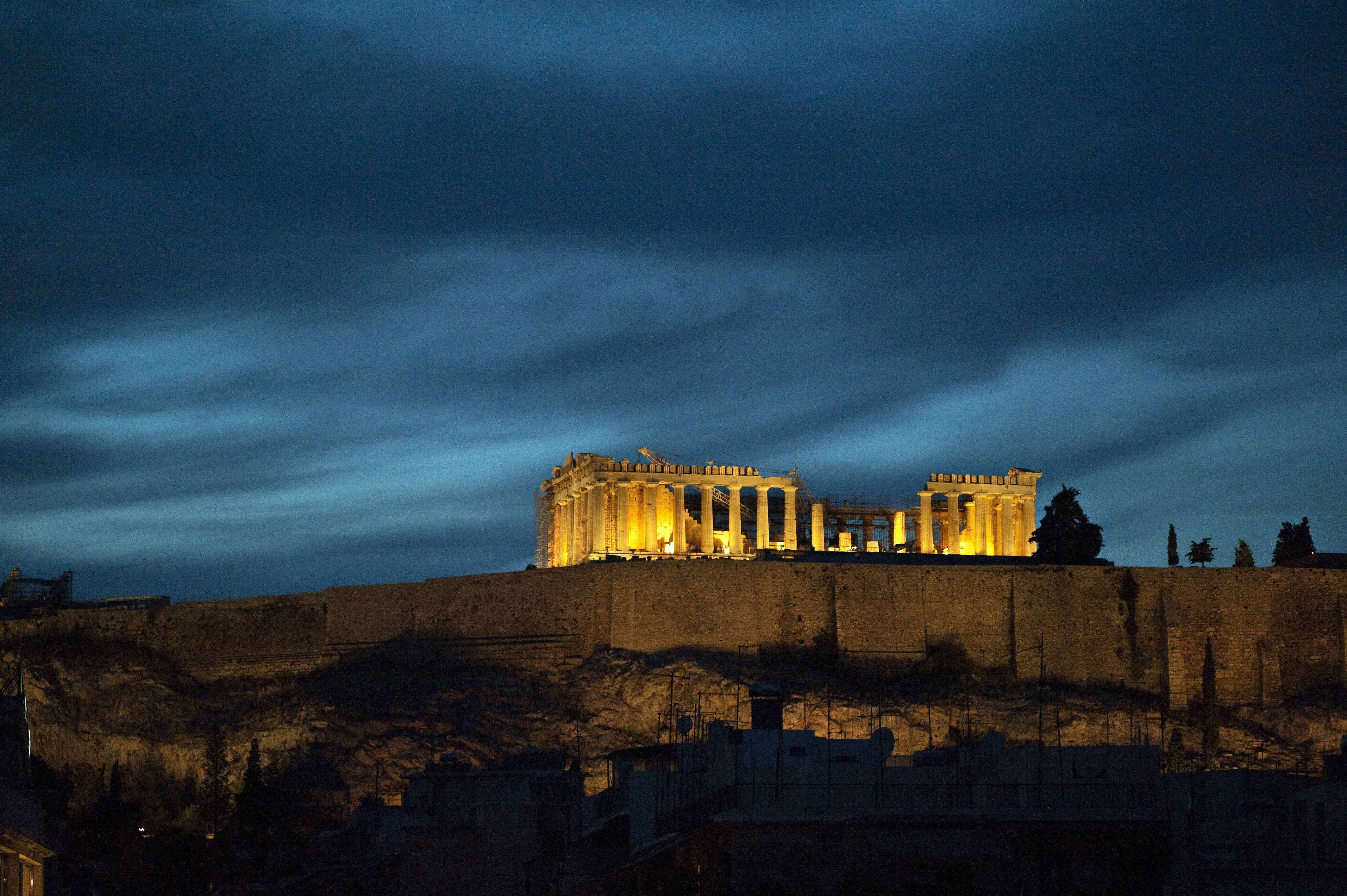 Panoramic image of Acropolis hill and Parthenon at night.